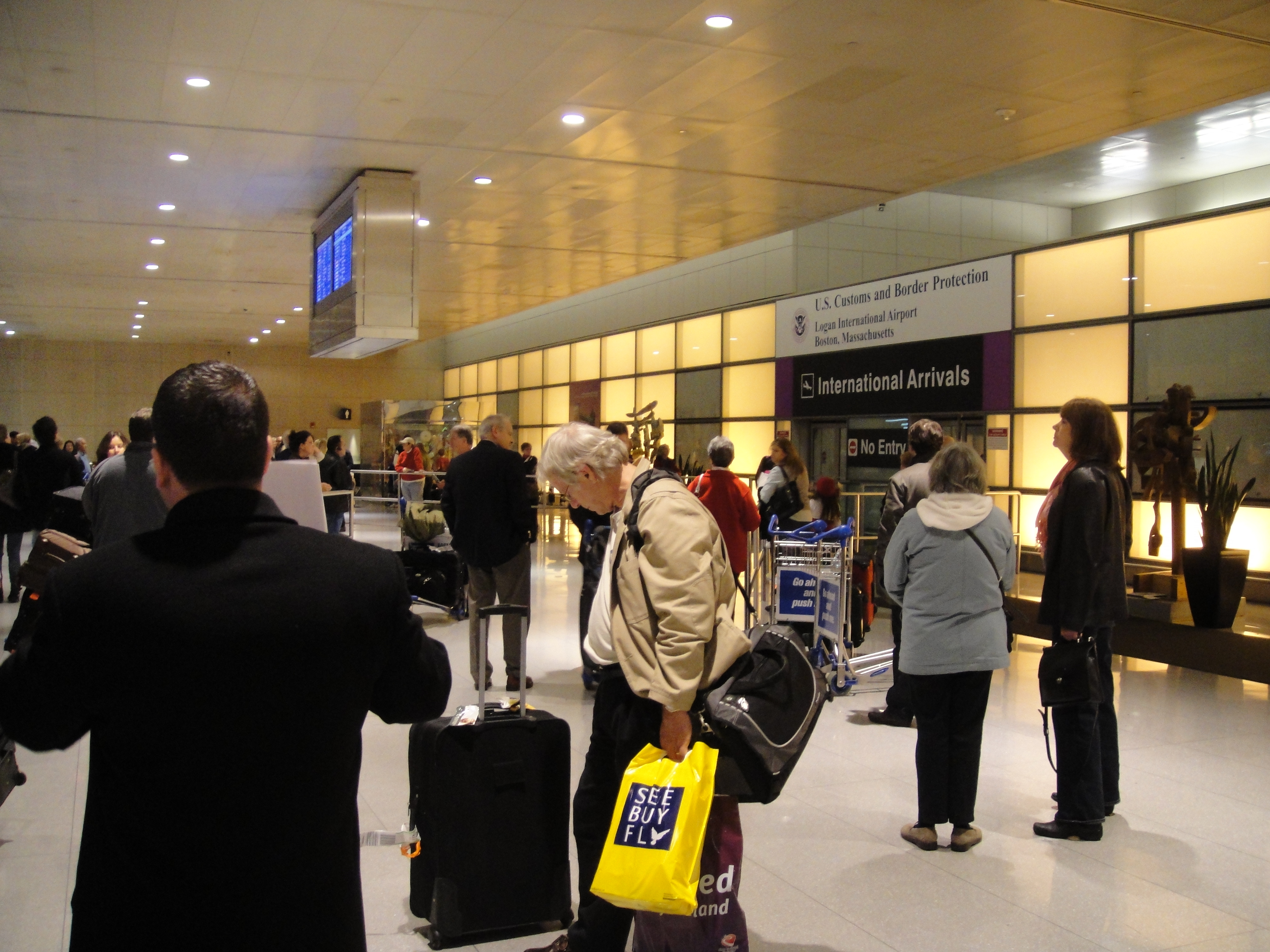 The International Arrivals Hall at Boston Logan International Airport's Terminal E, lower level. The airport code is BOS.